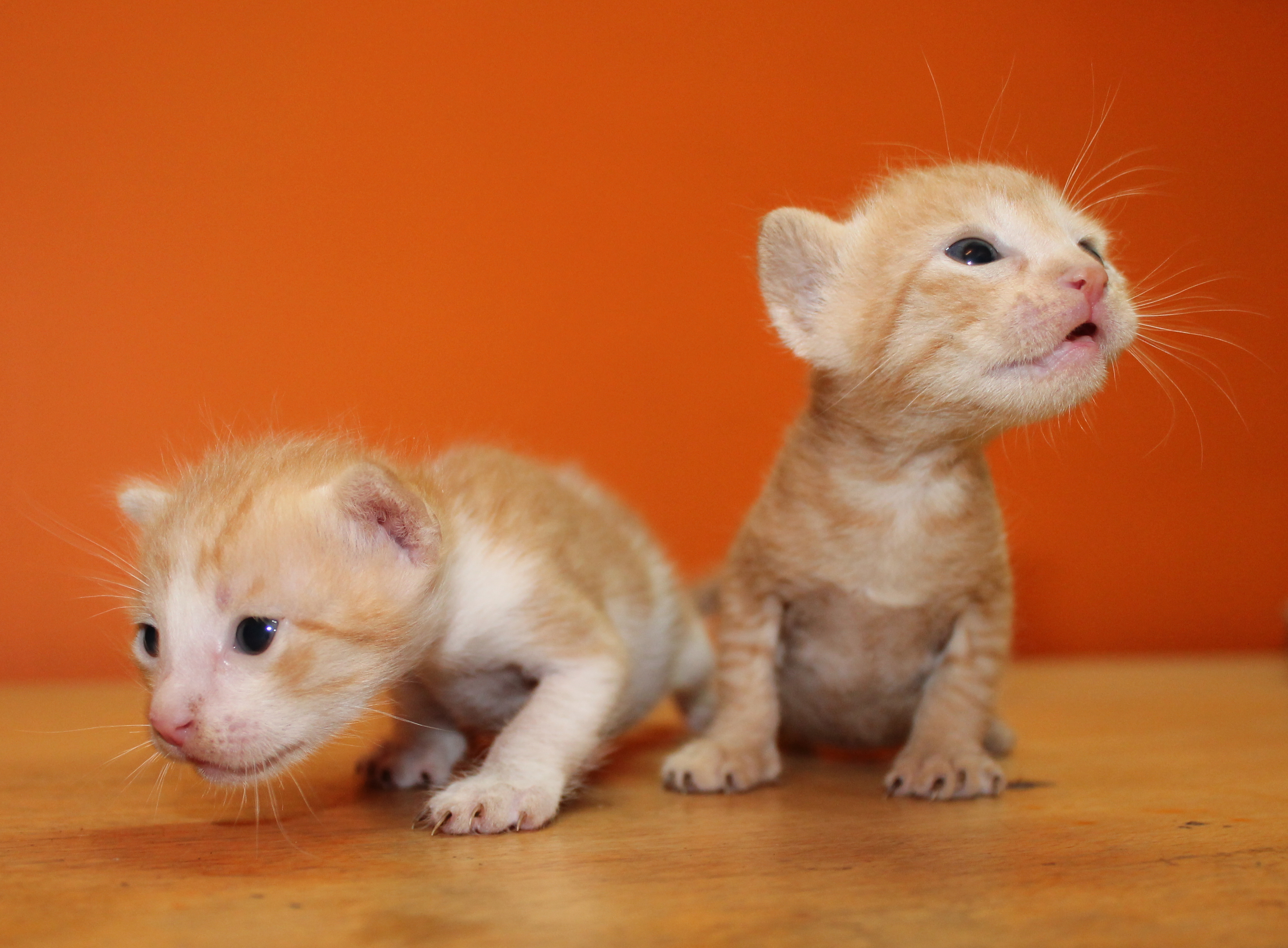 Two 17 day old kittens. They had opened eyes 2 days prior to the photo being taken.